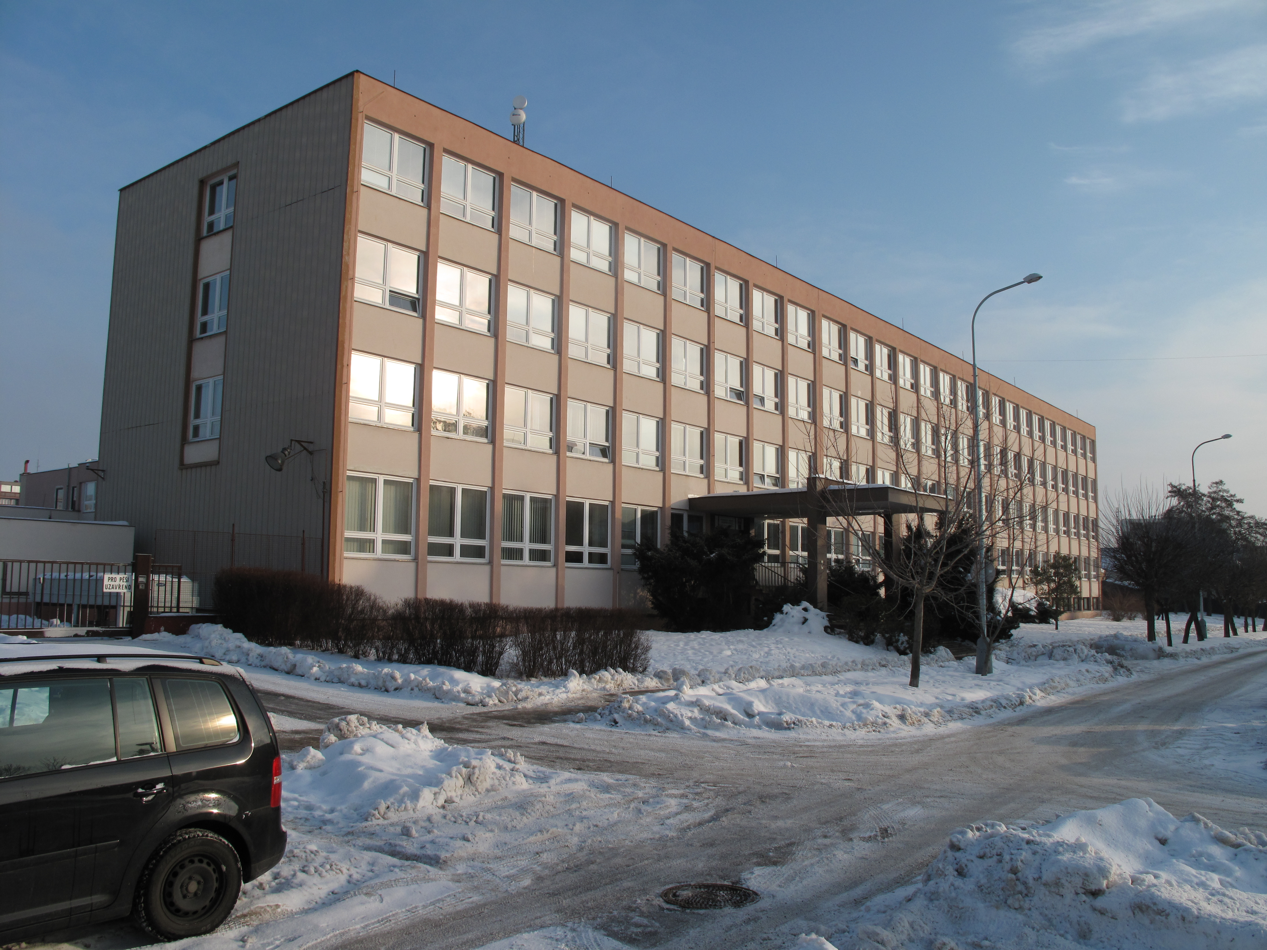 Institute of Physics of Academy of Sciences of the Czech Republic, Prague-Kobylisy, Czech Republic.